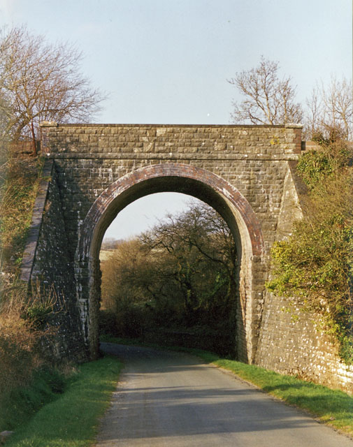 Railway Bridge at Croes-Cwtta This bridge, which carries the Vale of Glamorgan (BR) railway line, is adjacent to what used to be Southerndown Road railway station at SS917 747.